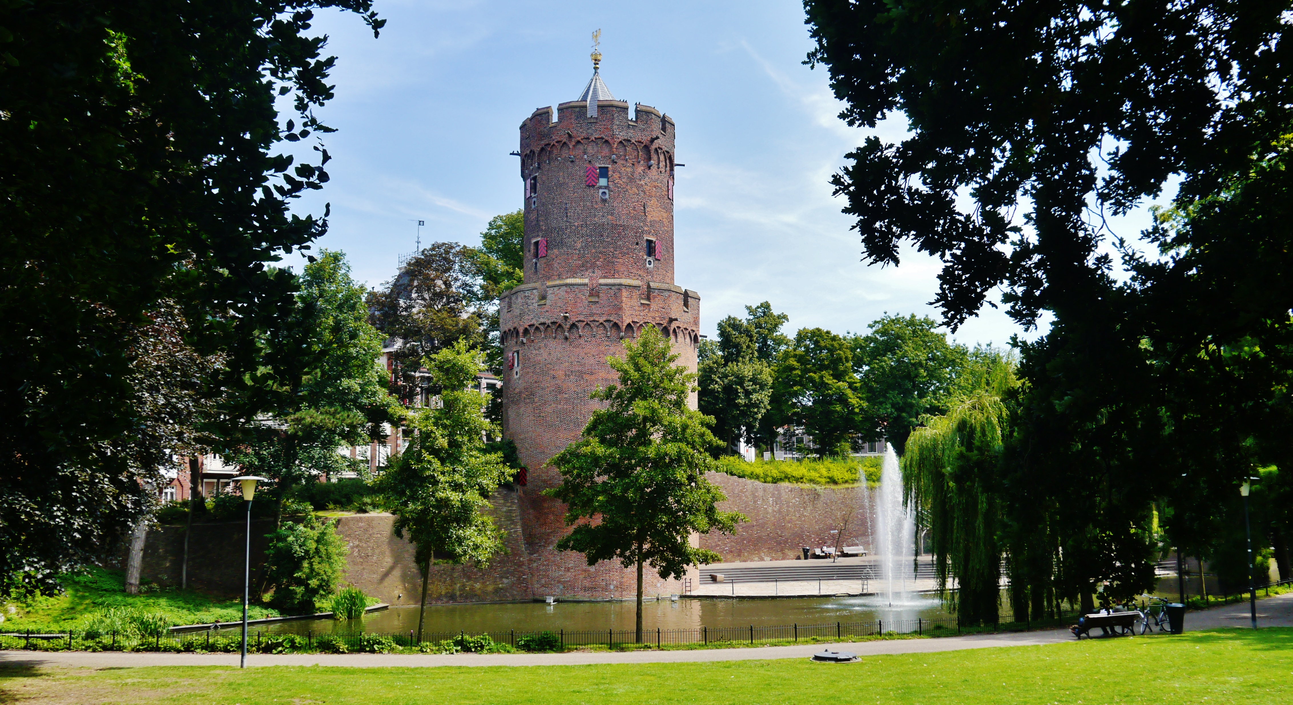 Kronenburg Gate, Nijmegen, Province of Gelderland, Netherlands